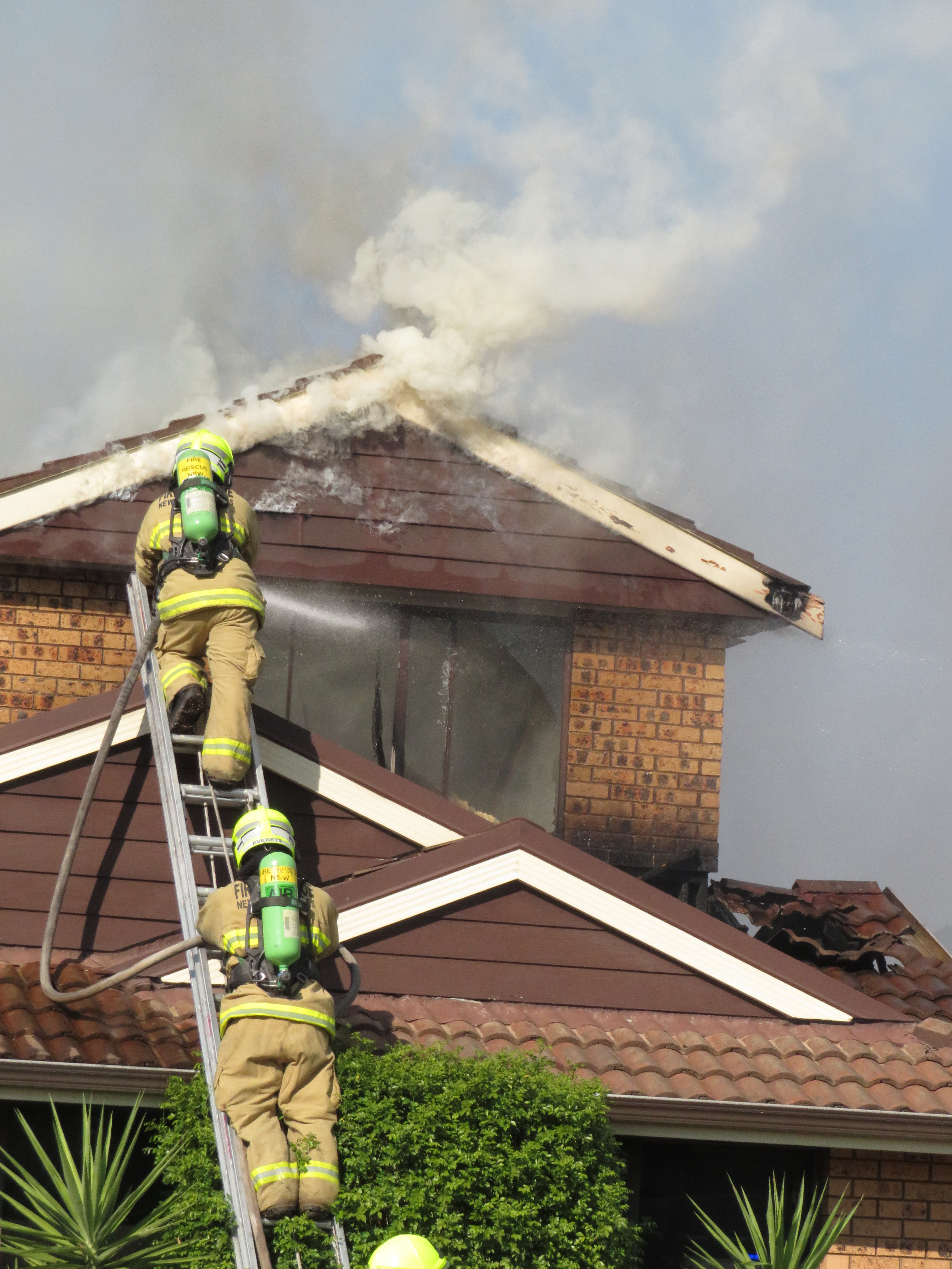 Fire and Rescue NSW firefighters attack a house fire at Lurnea in Sydney's South West